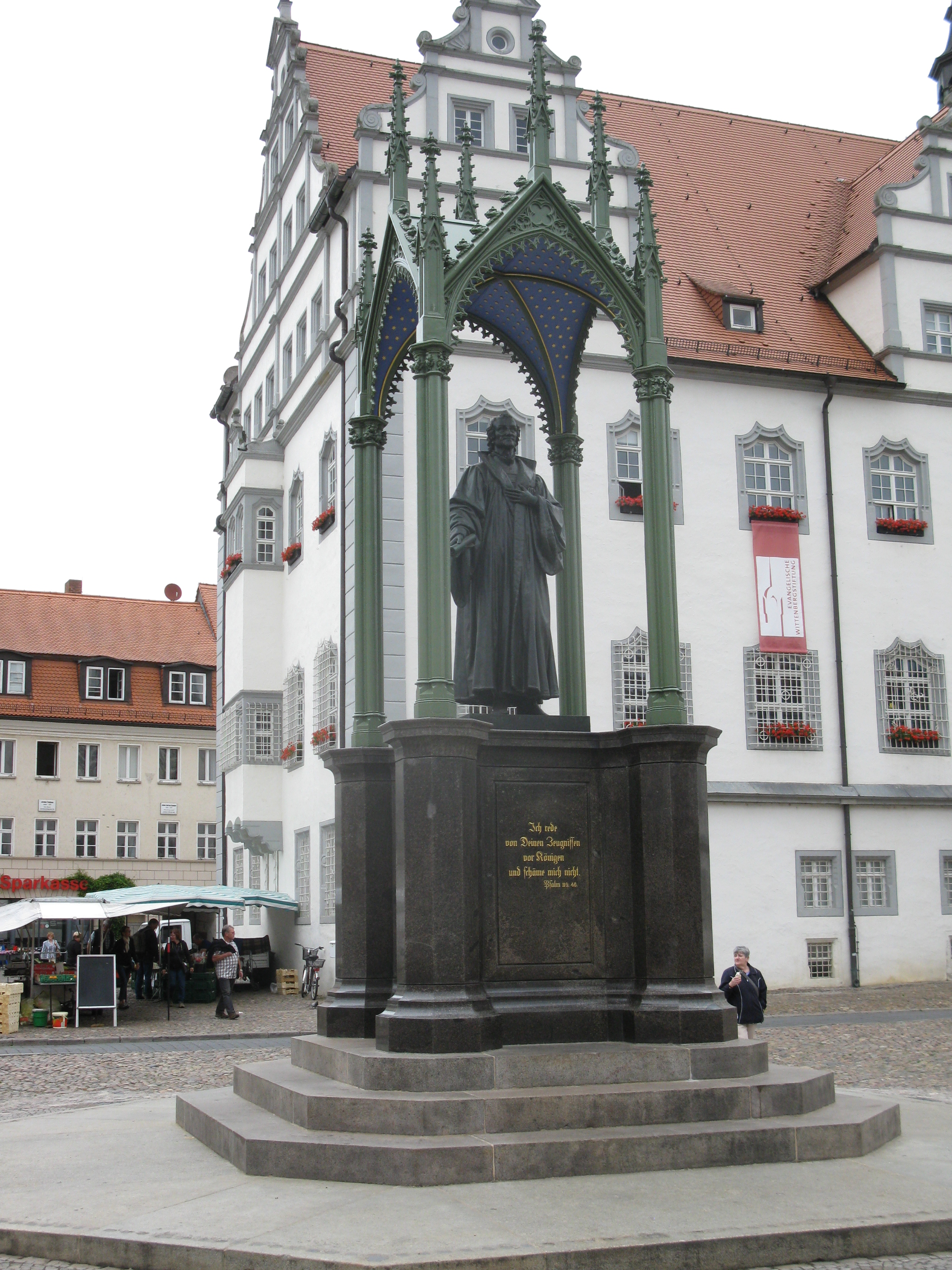 Lutherstadt Wittenberg, Melanchthon monument